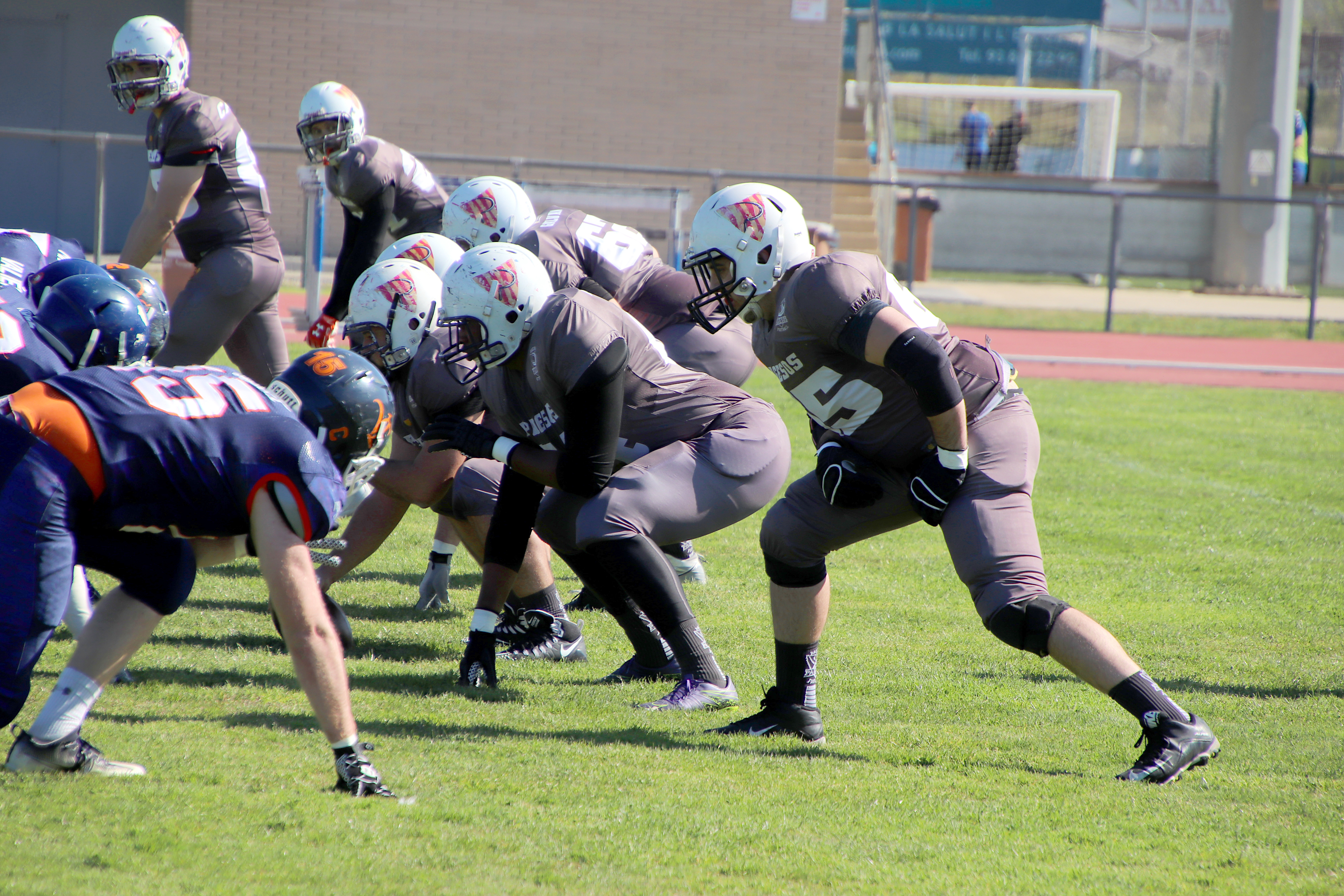 Lliga Catalana de Futbol Americà game Barcelona Pagesos vs. Vilafranca Eagles